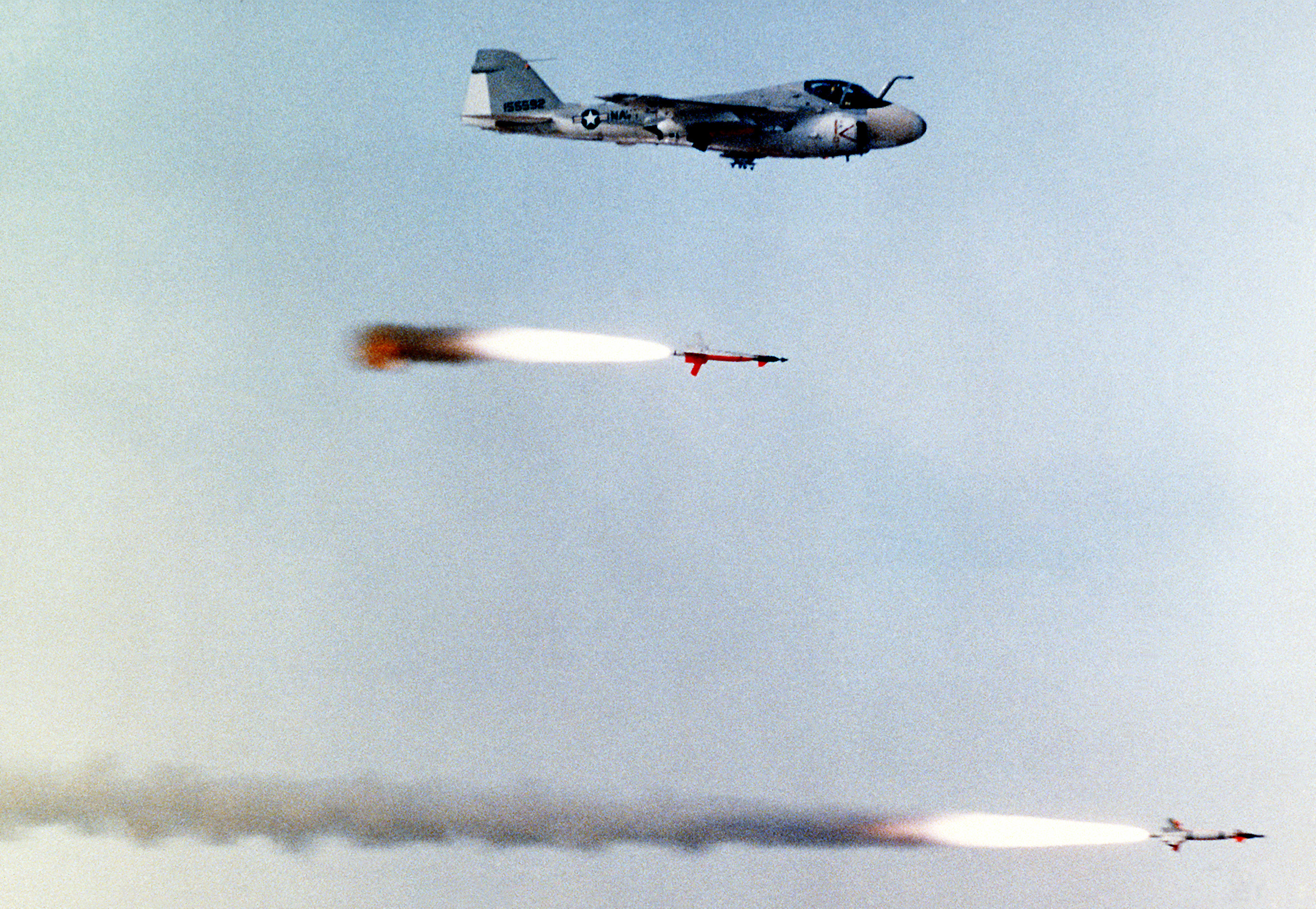 A U.S. Navy Grumman A-6E Intruder (BuNo 155592) aircraft as its crew monitors the flight of two AGM-123A low-level, laser-guided bombs.